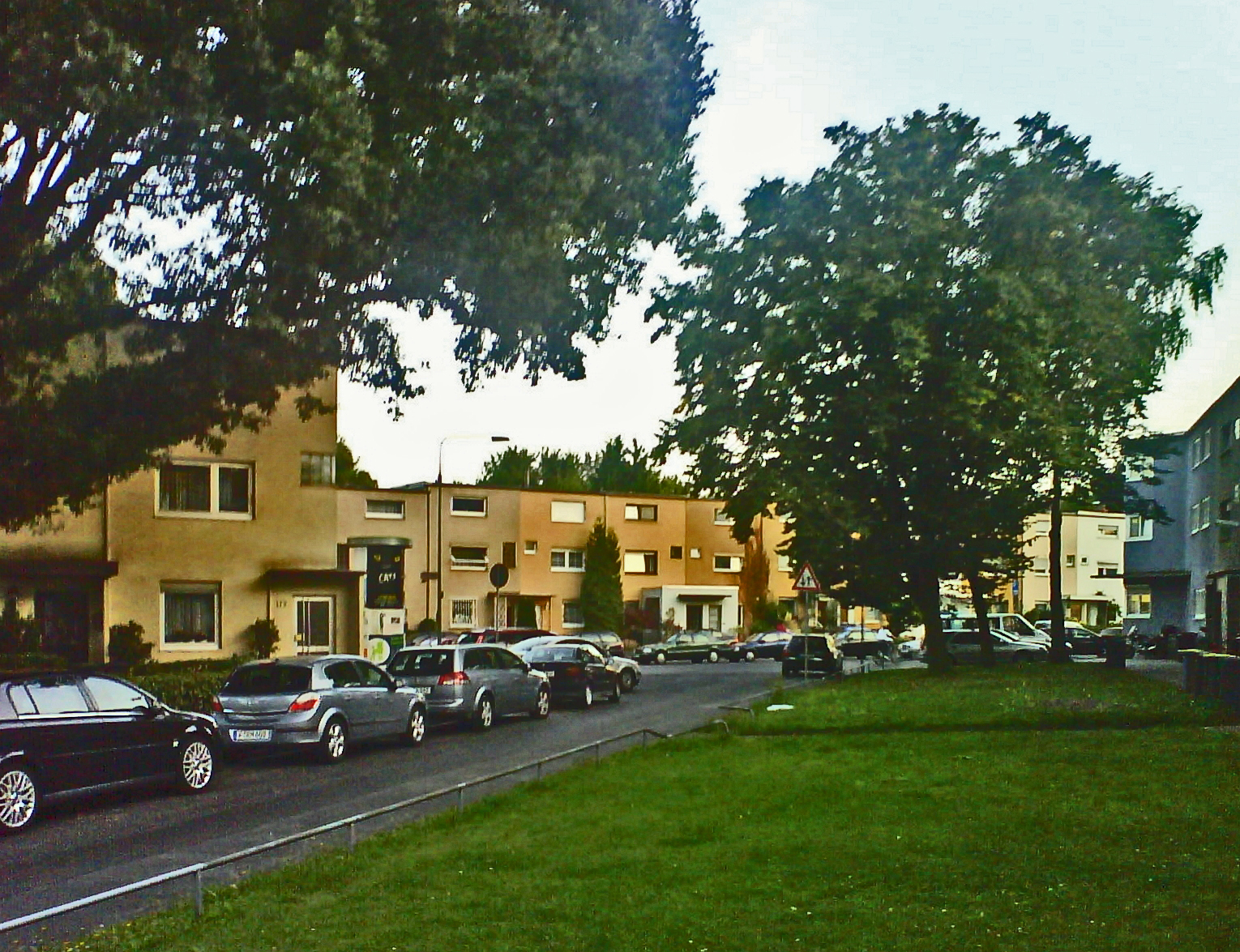 View from street "Damaschkeanger" into "Am Ebelfeld" (Siedlung Praunheim, Frankfurt, Germany)